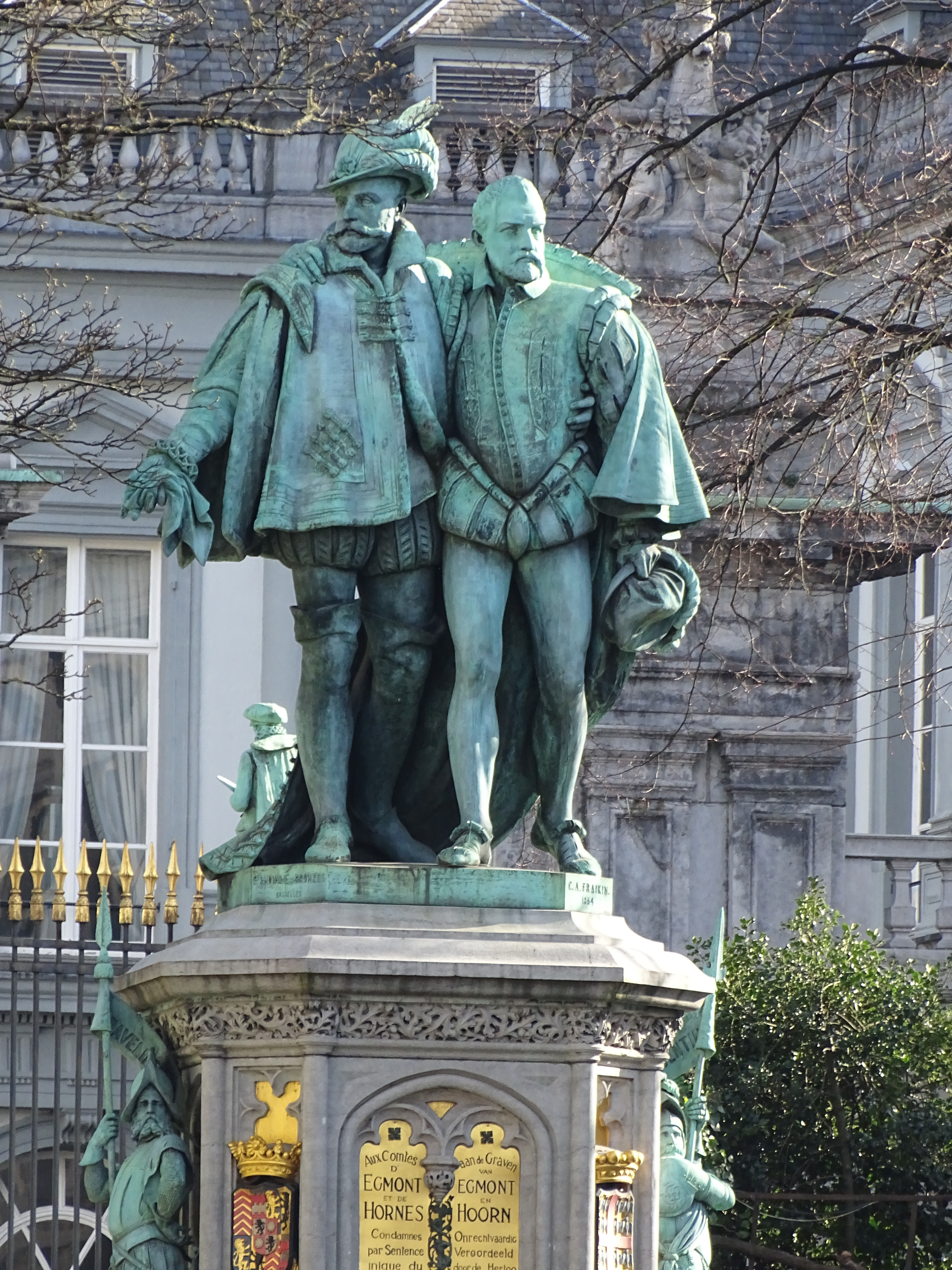 Statue, by Charles-Auguste Fraikin, erected on the Petit Sablon / Kleine Zavel Square in Brussels commemorating the Counts of Egmont and Horn.